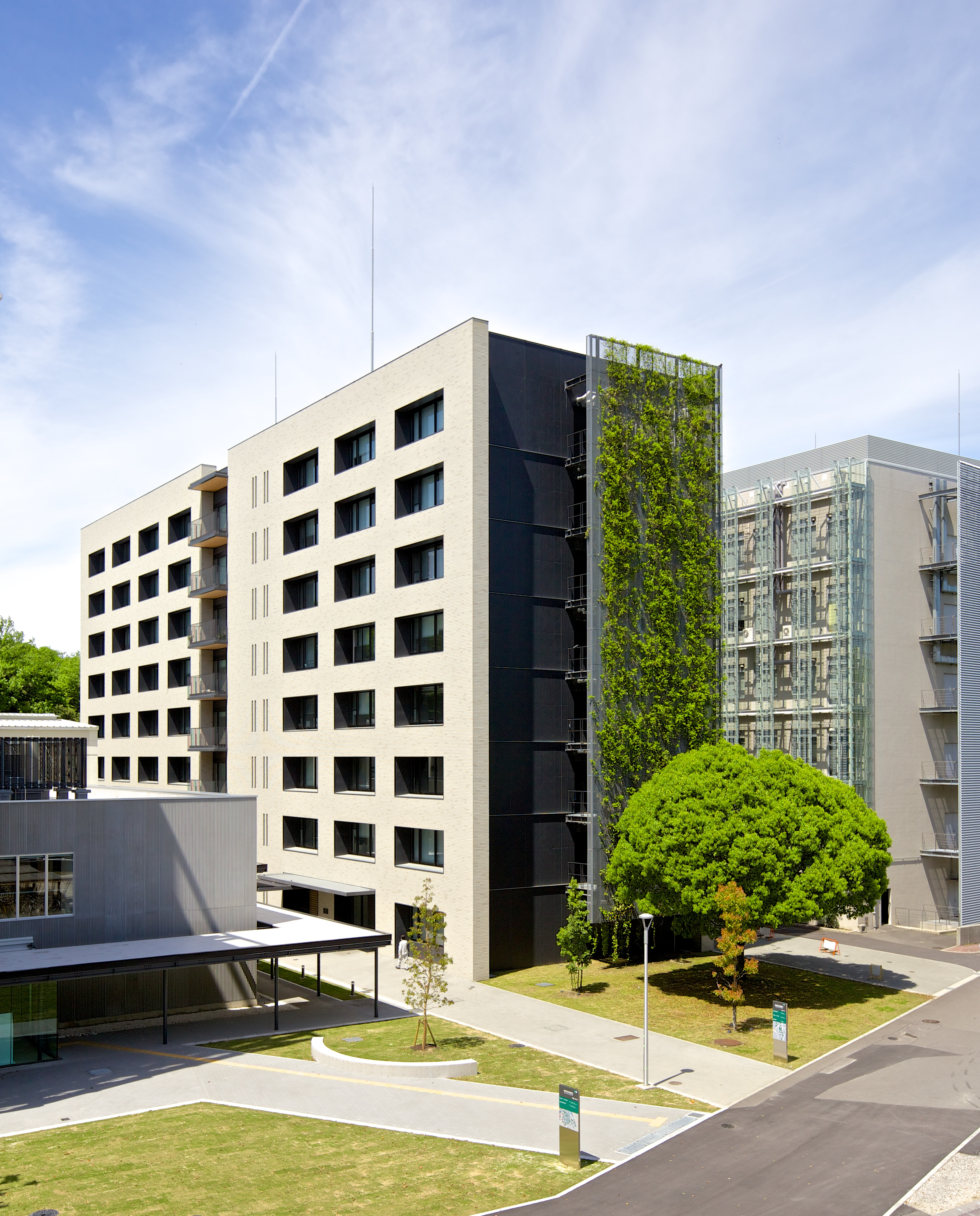 The main building of the Institute for Space-Earth Environmental Research (ISEE), Nagoya University, Japan.